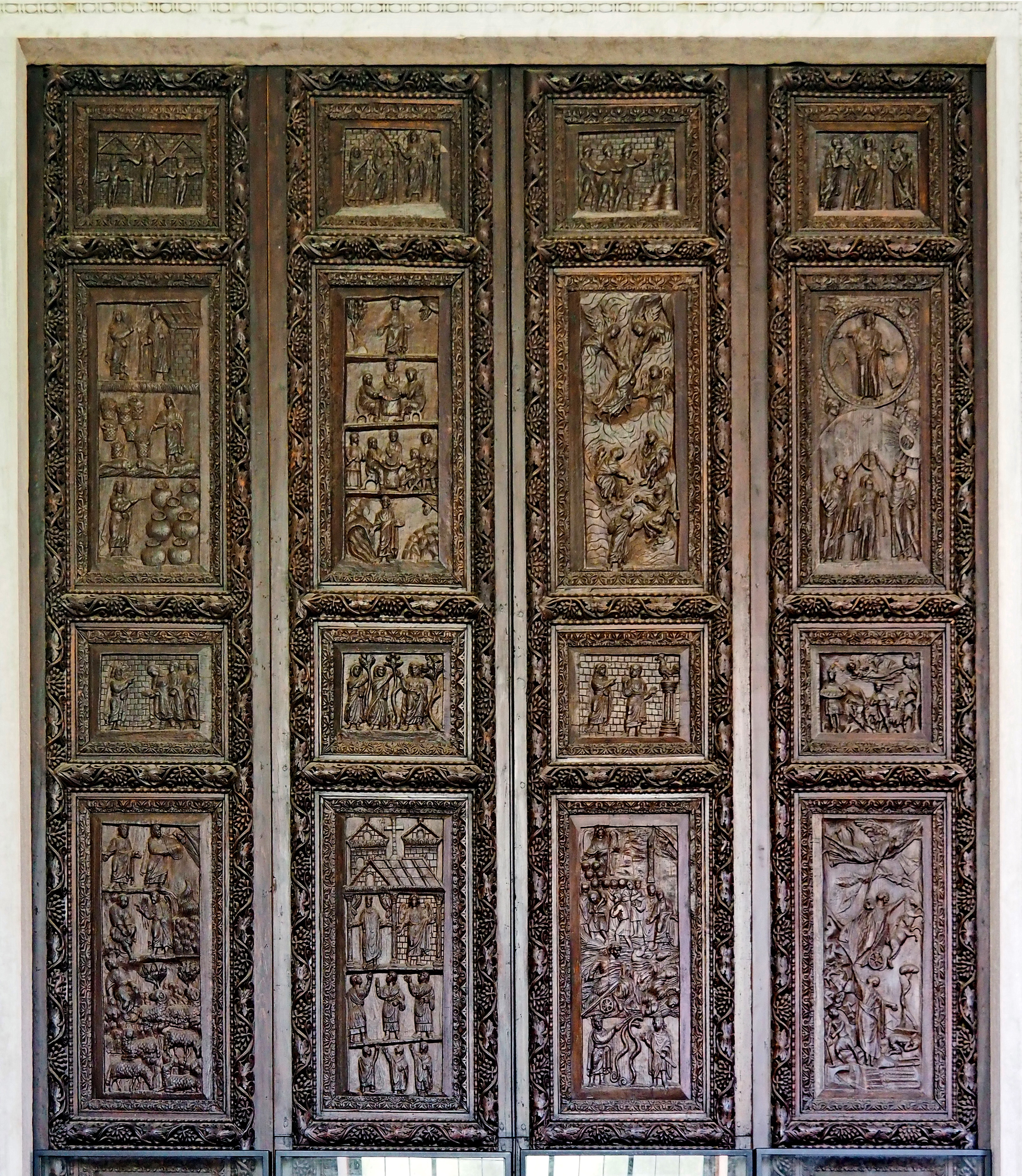 Santa Sabina (Roma); Entrace door